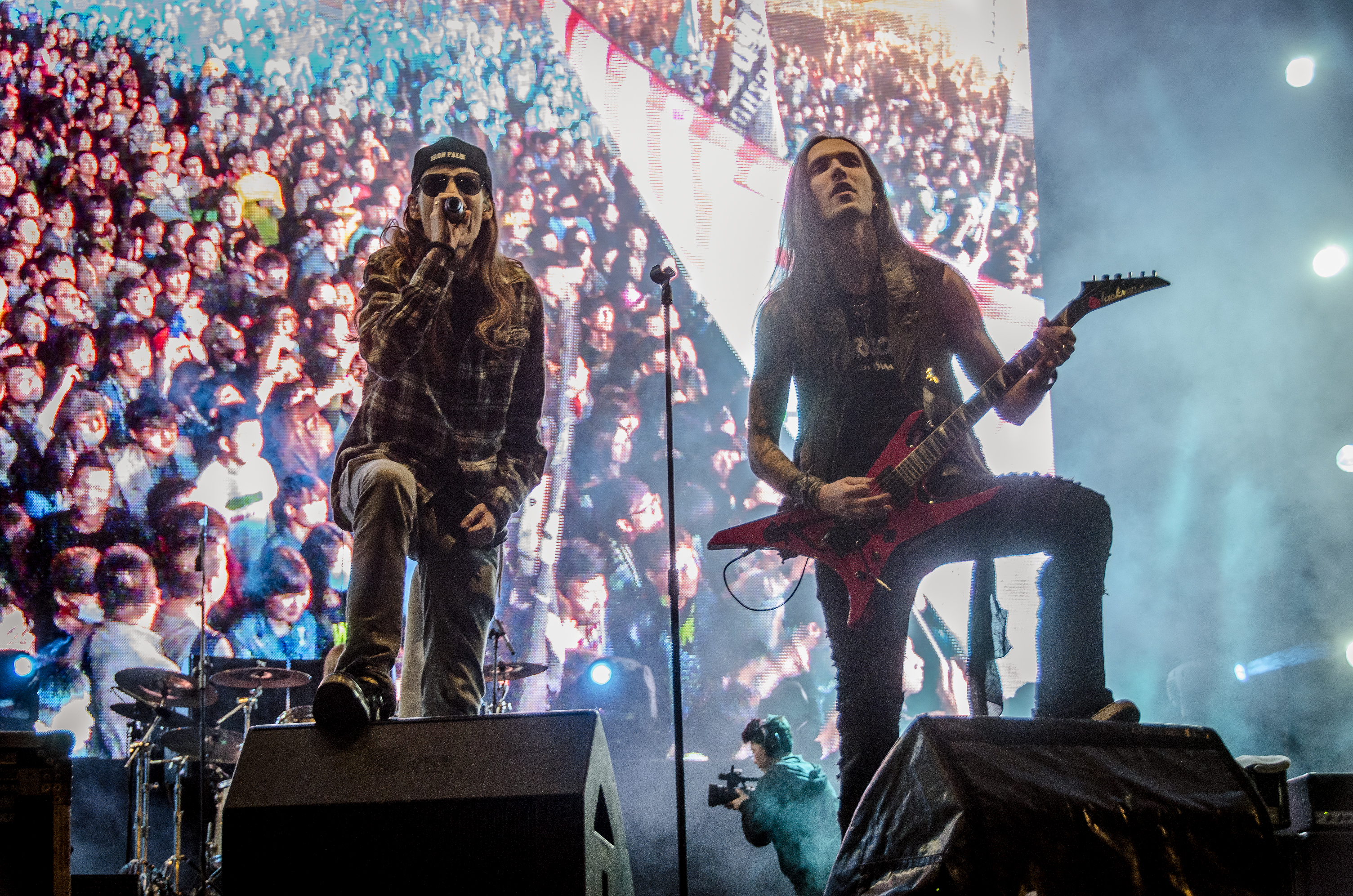 Photo by Aurélien Foucault. Ari Koivunen and Ben Varon from Amoral at Peking Midi Festival 29.04.2013.